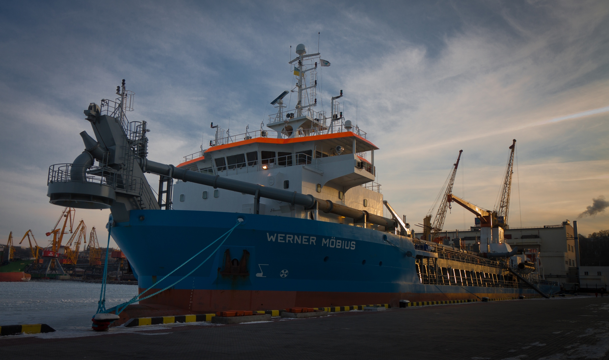 Dredger vessel in Odessa port